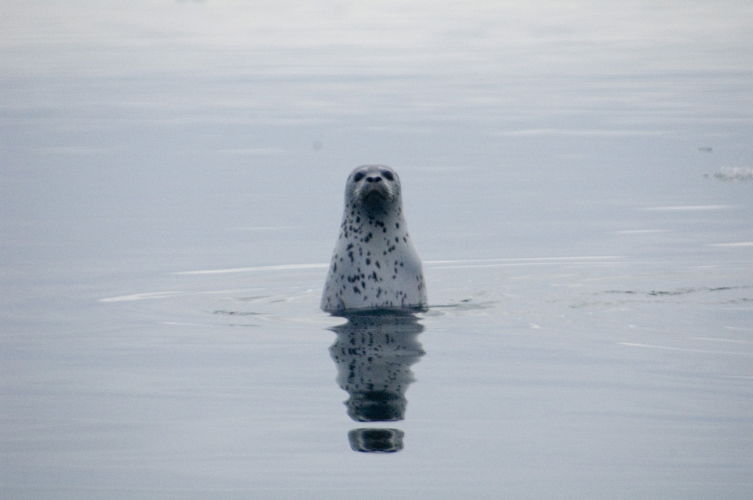 Spotted seal viewing humans